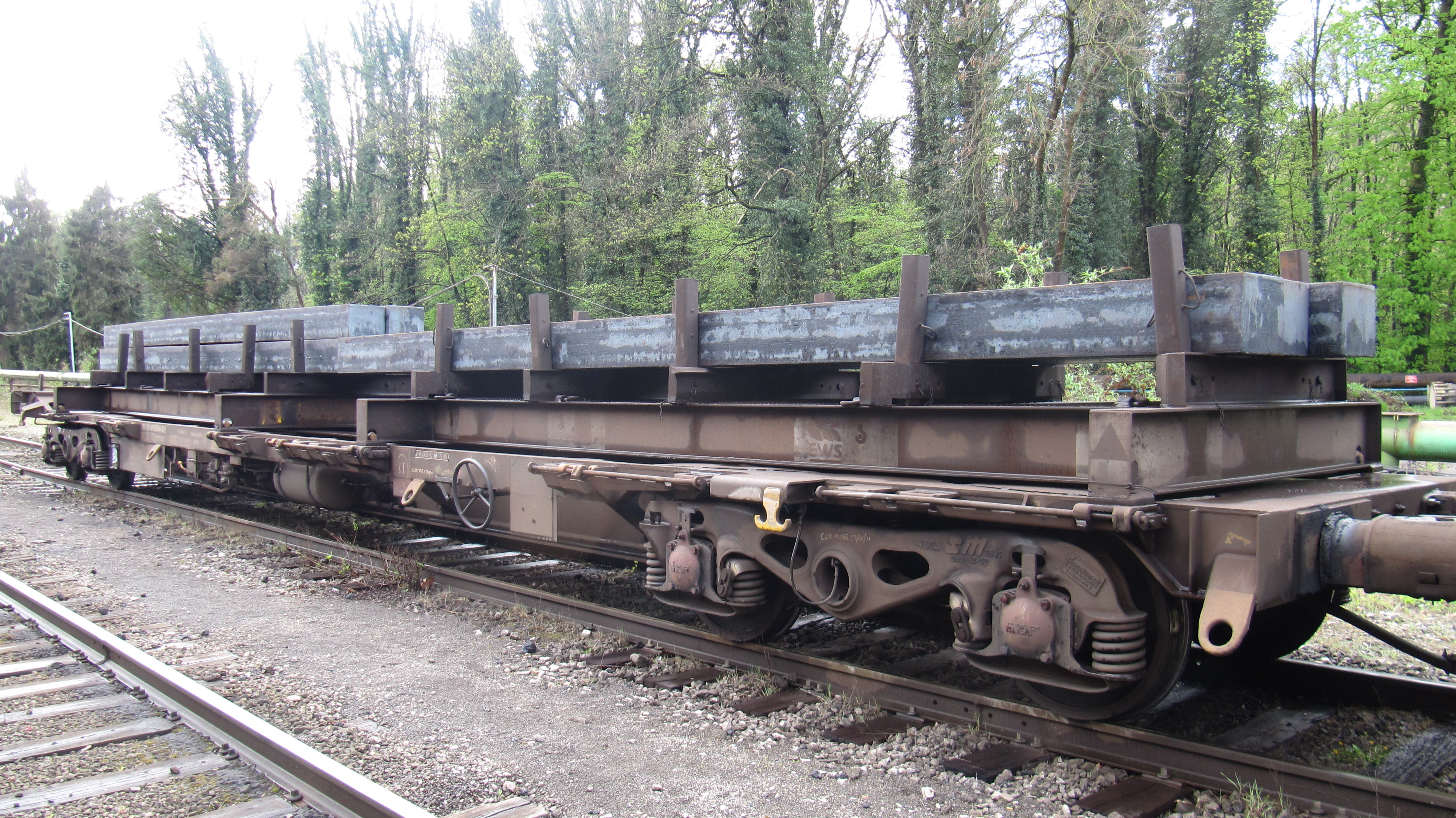 Blooms on their railroad car. These blooms have been casted atScunthorpe (Englang, North Lincolnshire) and are sent by rail to Hayange (France, Moselle) to be rolled as rails.